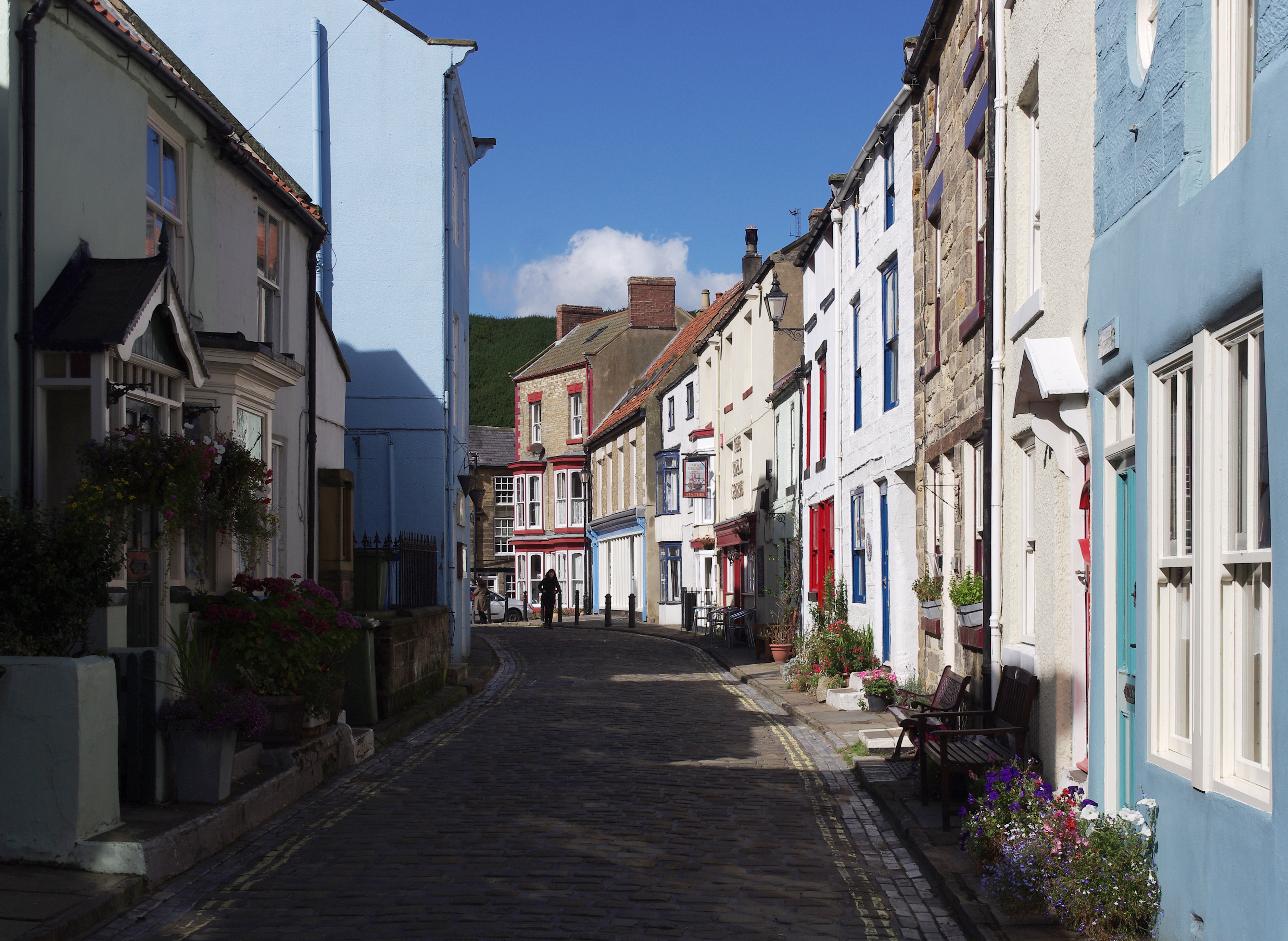 The main street in Staithes.